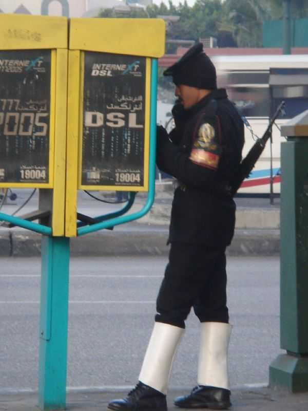 Photographing policemen in Egypt is usally not allowed...but this one wasn't watching See where this picture was taken. ?